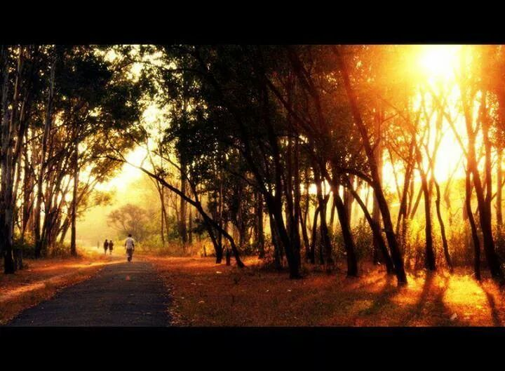 CHITTOR COLLEGE MAIN WAY